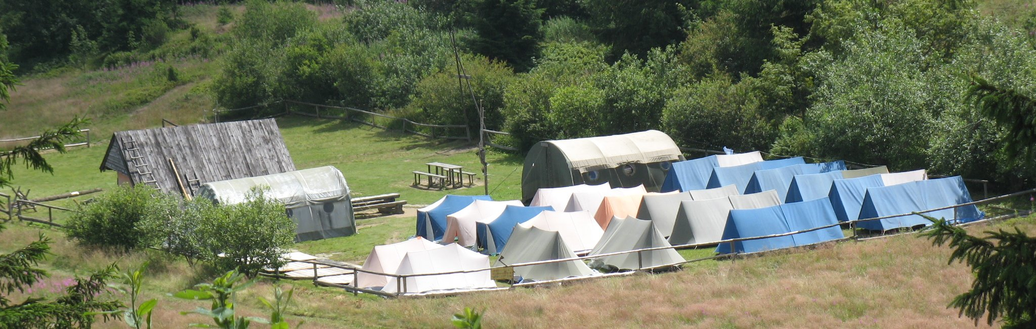 student's tent base on Lubań (1211 meters above sea level)